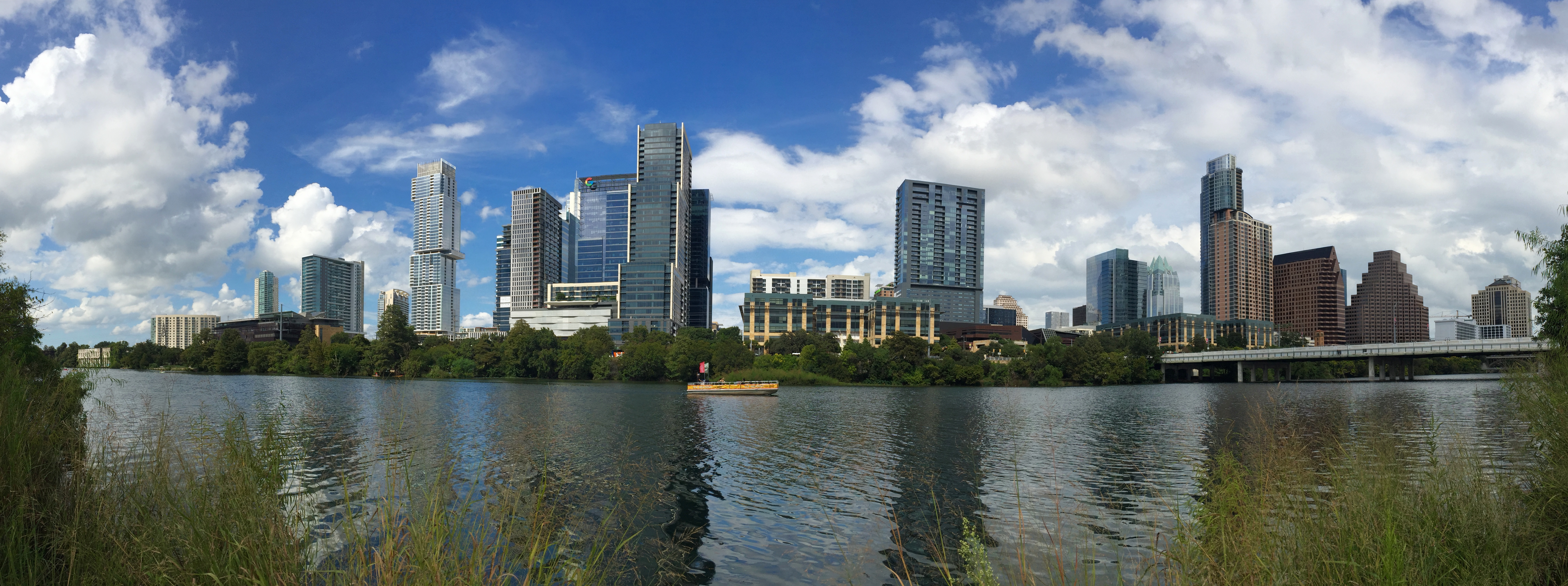 The skyline of Downtown Austin, Texas seen from Auditorium Shores in October 2018.